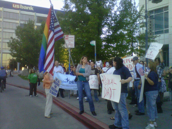 Photo was taken in Reno, Nevada Lauren Scott protesting the "Don't Ask, Don't Tell" policy in 2010.